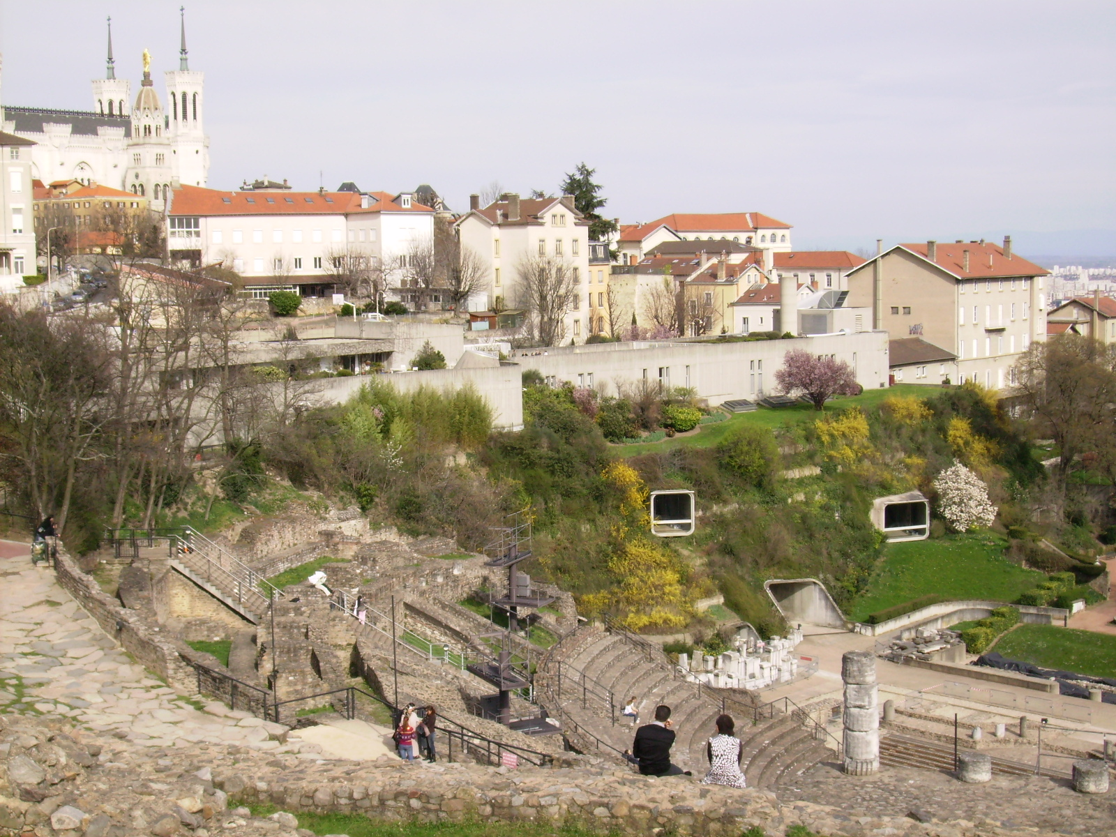 Gallo-Roman Museum of Lyon Fourvière, theater side